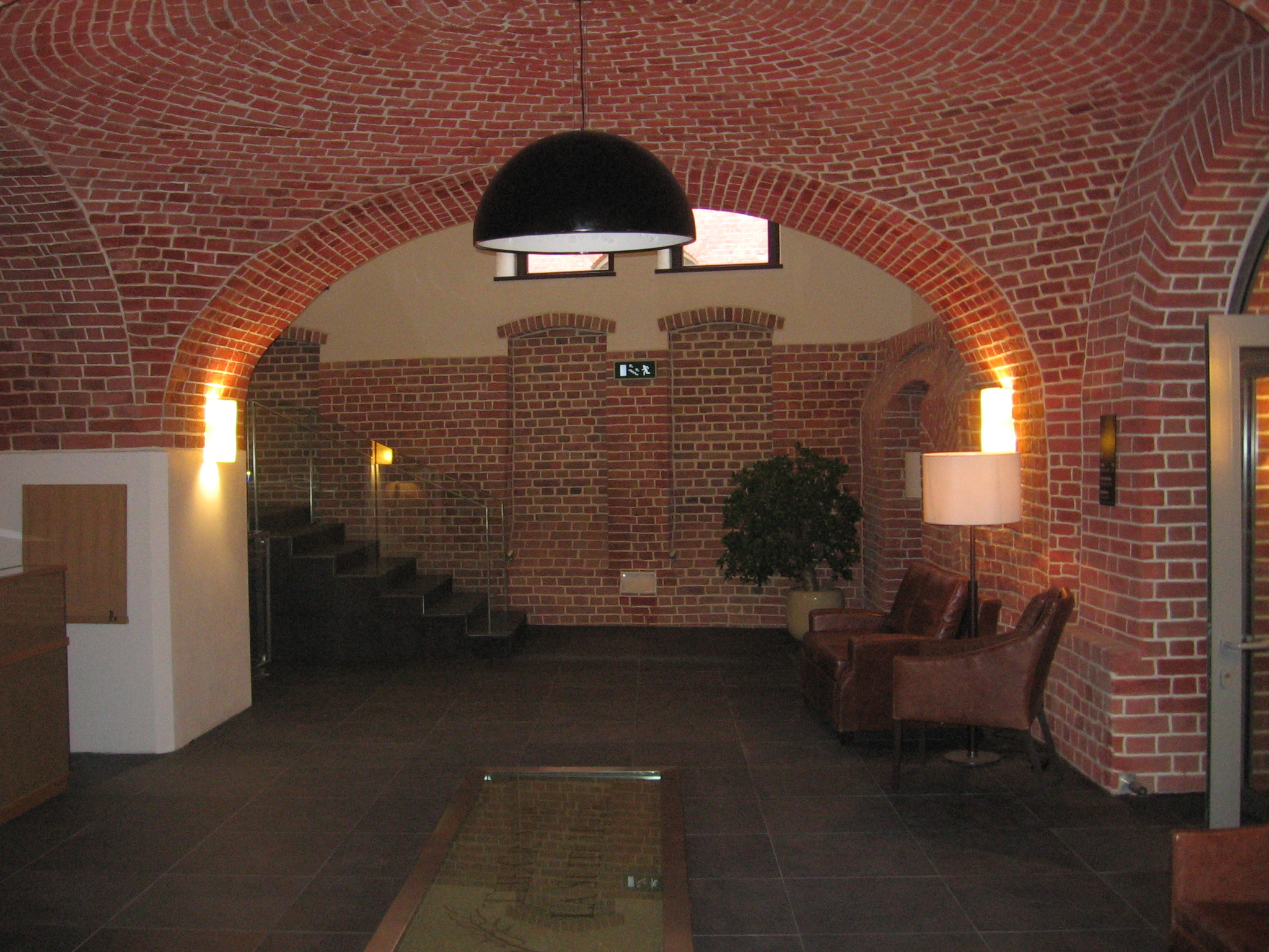 The Granary - La Suite Hotel, ul. Mennicza, Wrocław hall hotelowy